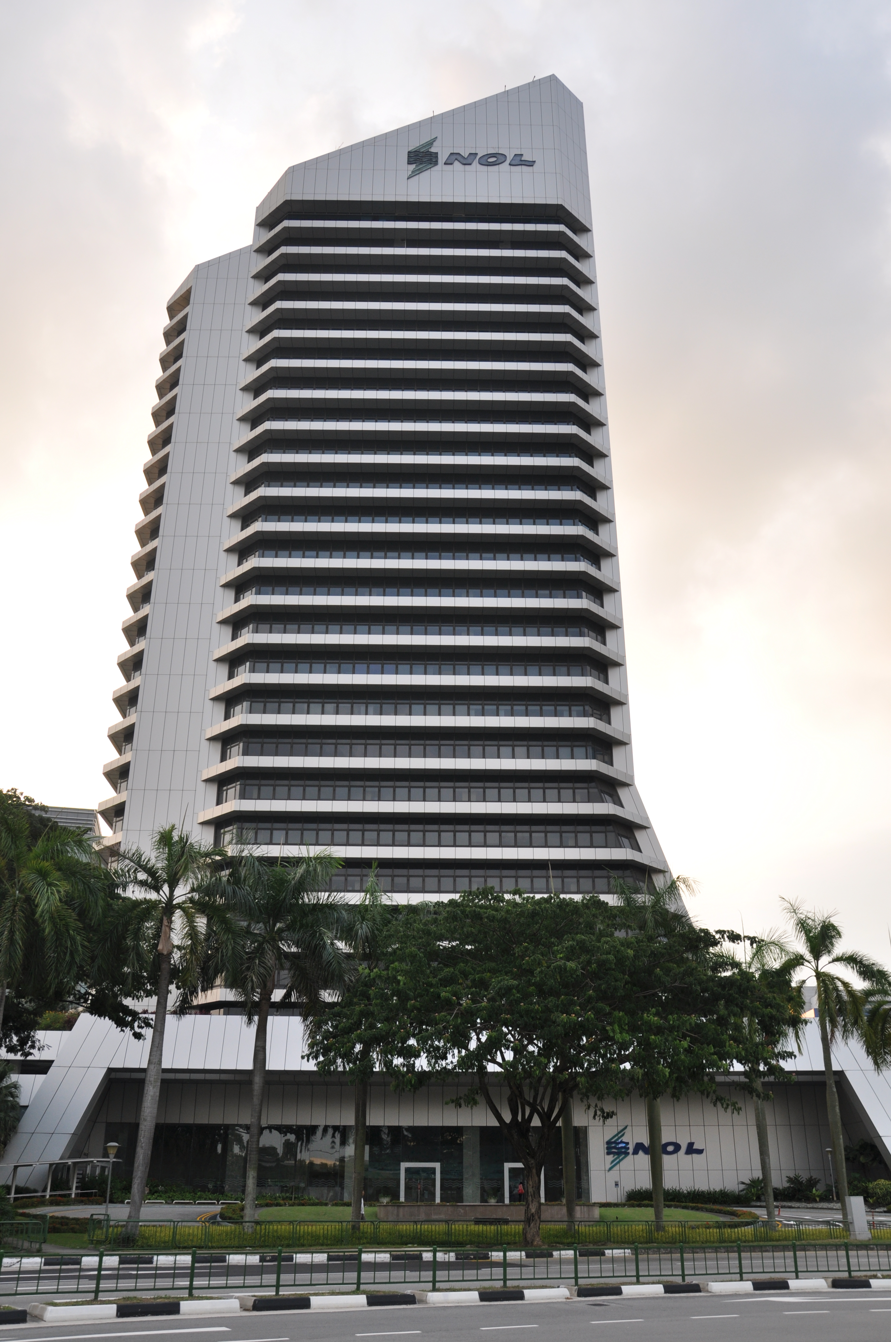 NOL Building at 456 Alexandra Road (near Labrador Park MRT Station), Singapore. It is the headquarters of Neptune Orient Lines.